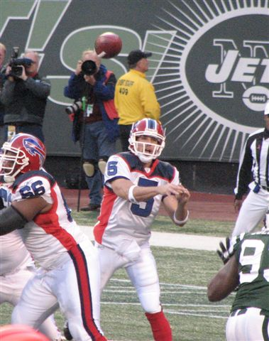 Trent Edwards throws to his outlet receiver during second half of the October 28, 2007 Buffalo Bills victory over the Jets in East Rutherford, NJ's Giants Staidum.